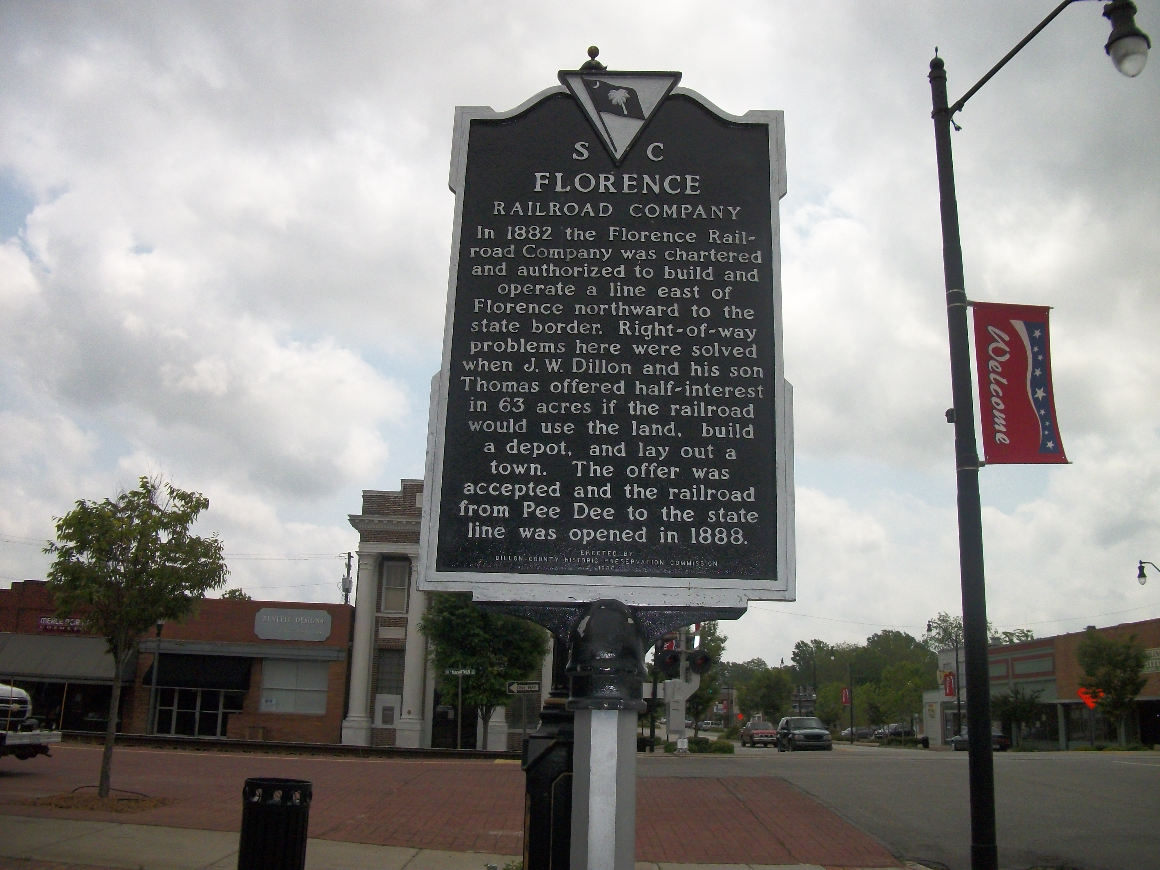 West side of the historic marker at the Dillon (Amtrak station) on the northeast corner of Railroad Avenue and South Carolina Route 34(West Main Street) in Dillon, South Carolina.